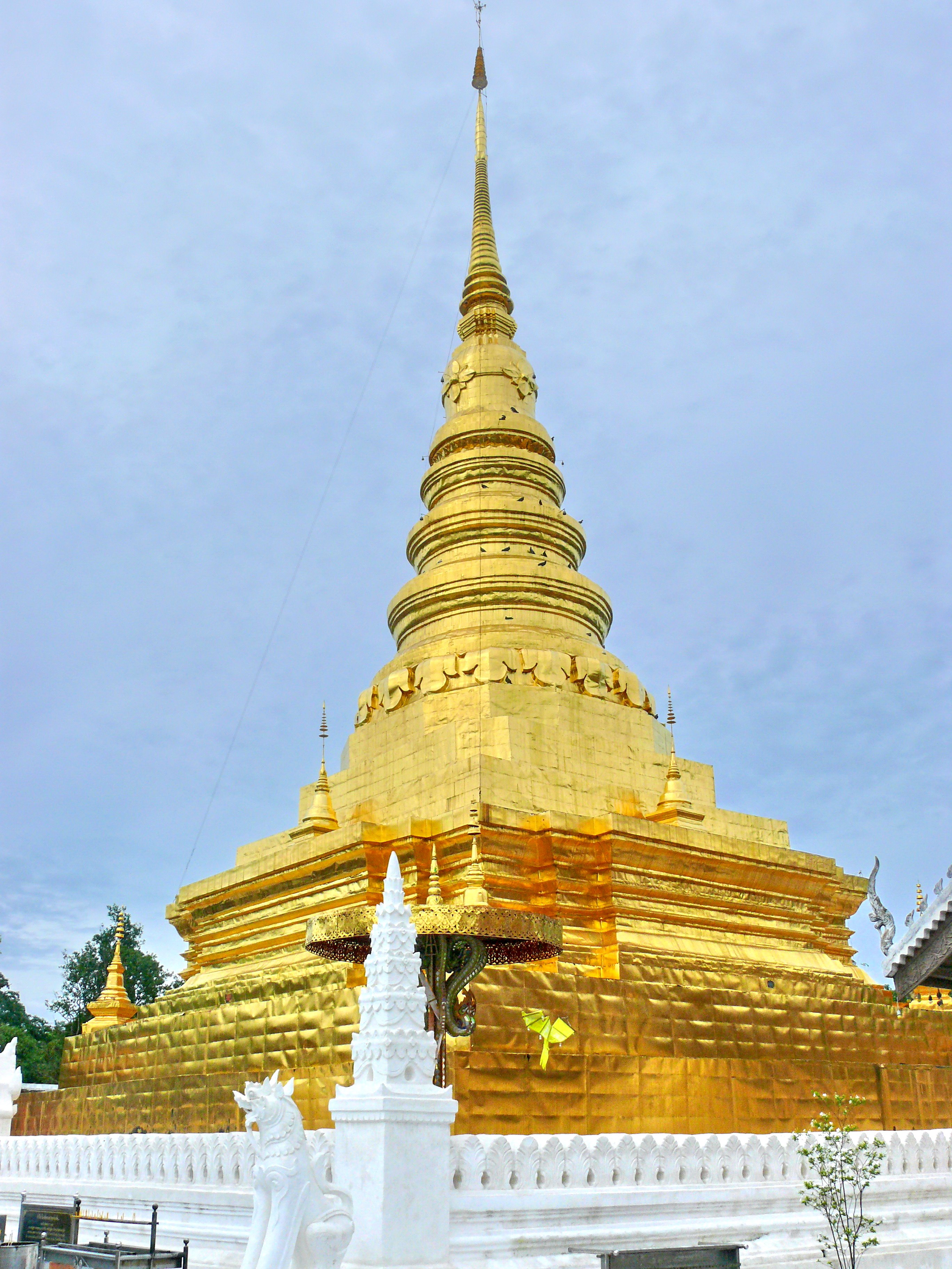 Phra_That_Chae_Haeng,__Province_de_Nan.jpg